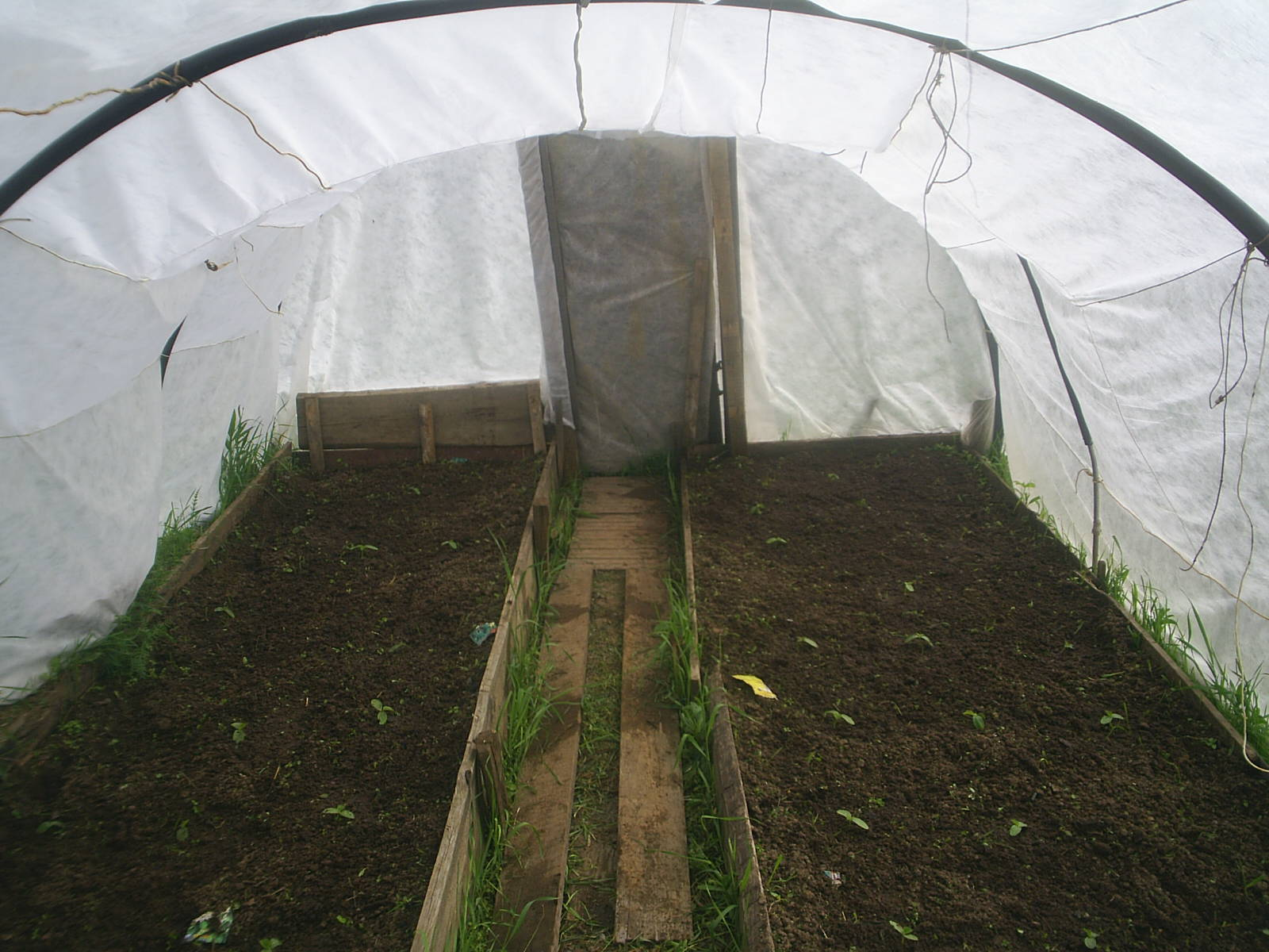 Greenhouse in Russian